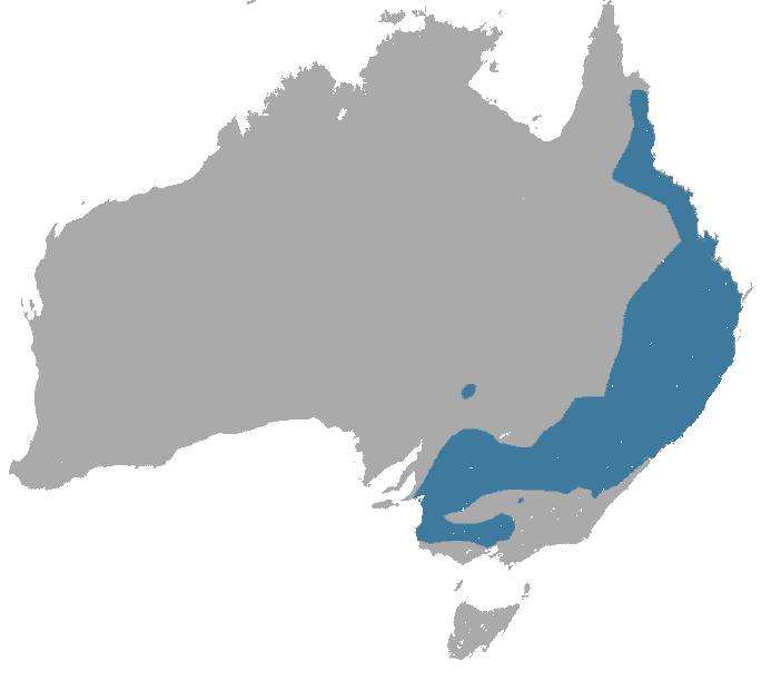 Slender-tailed Dunnart (Sminthopsis murina) range